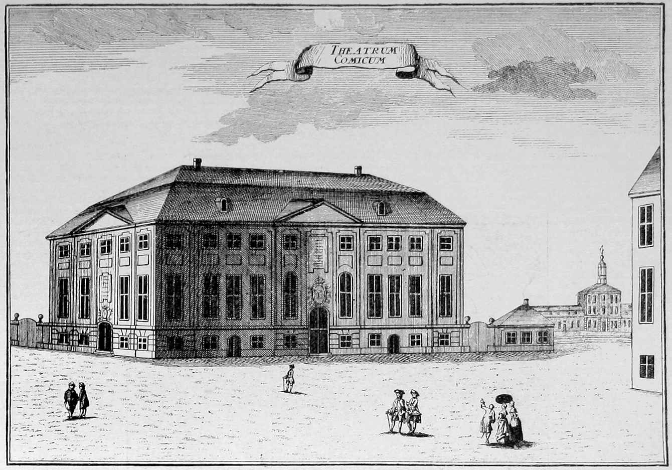 Royal Danish Theatre, 1748